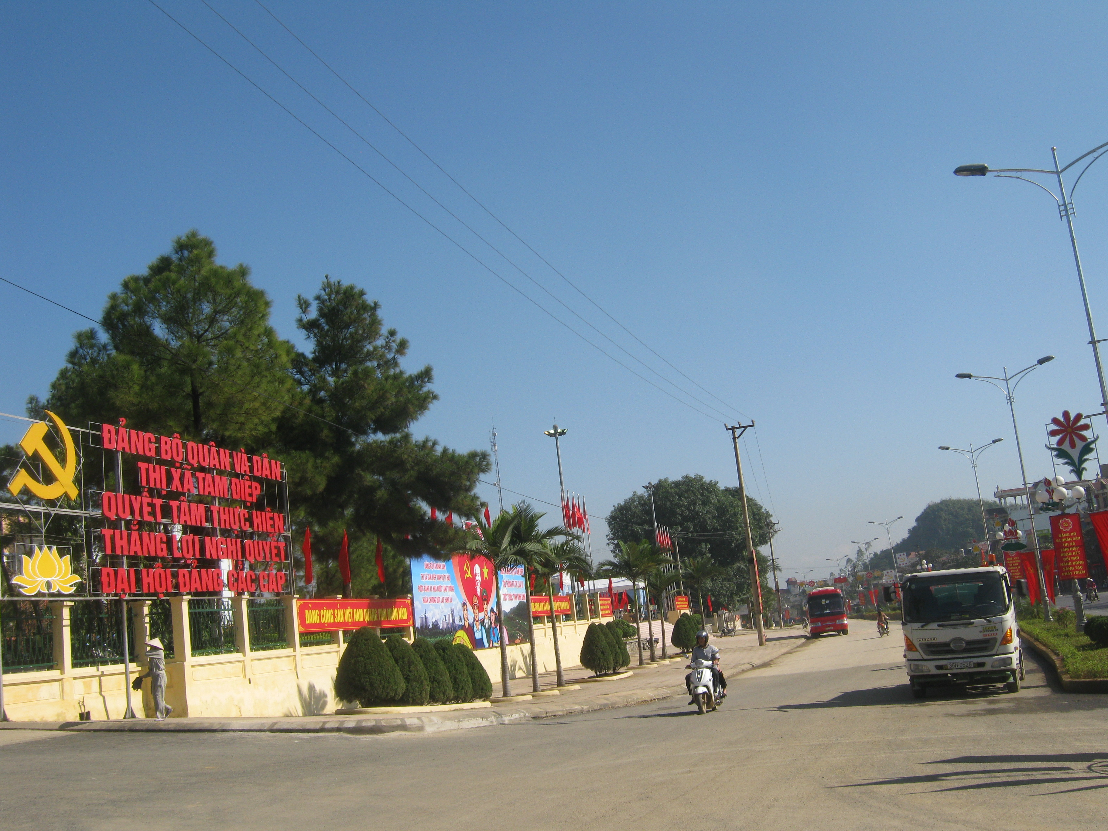 Urban landscapes of Tam Diep and Ninh Binh